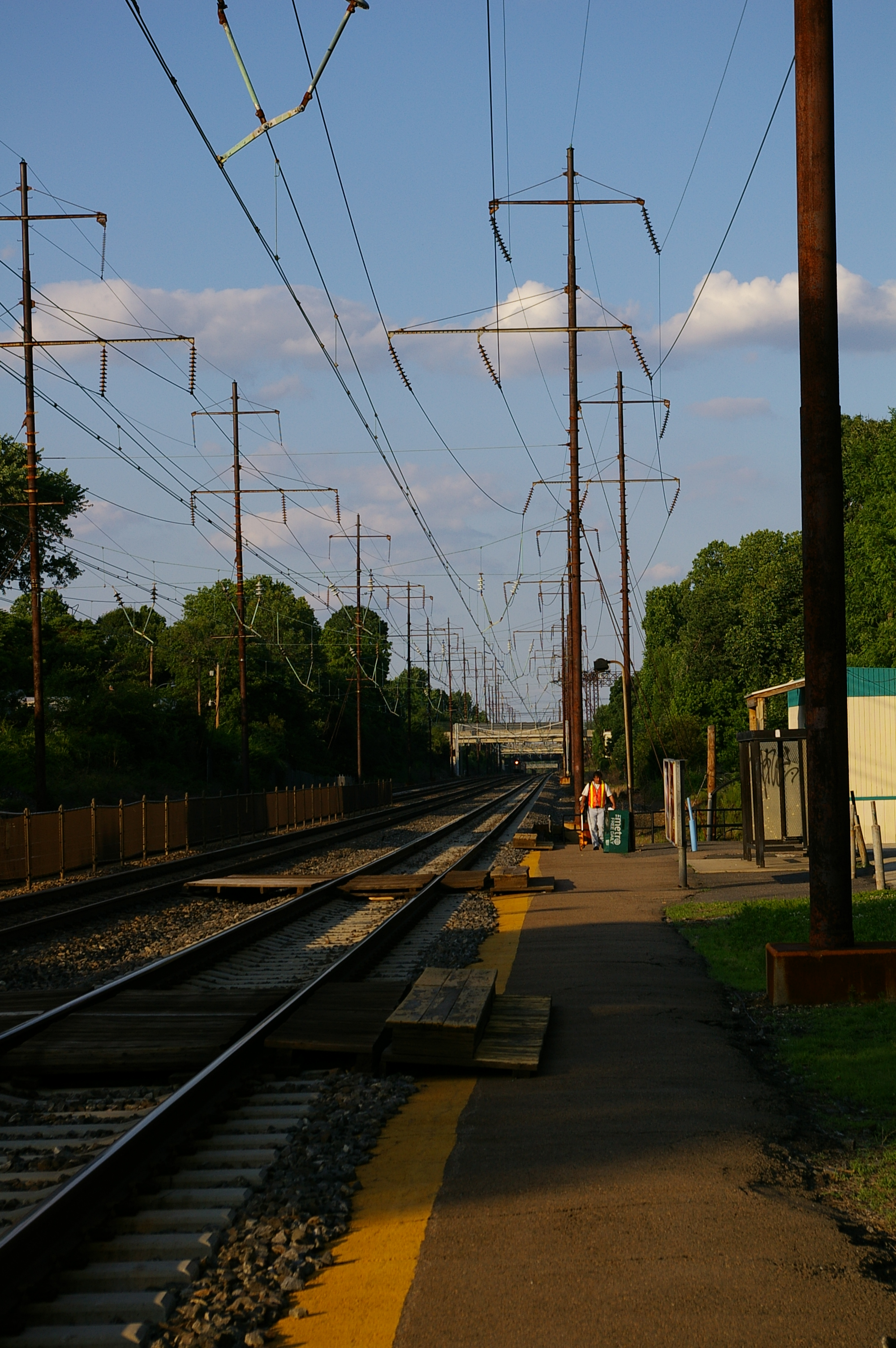 Glenolden SEPTA R2 station located at Glenolden Avenue and Willow Way in Glenolden, PA